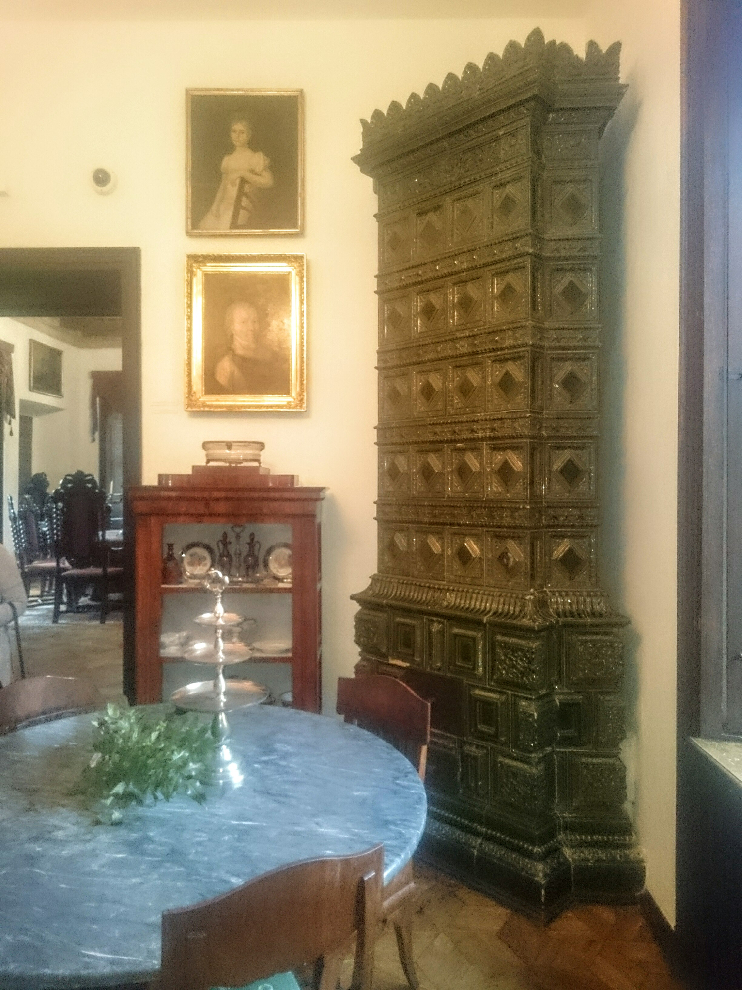 Part of the living room from XIX century in Oporów Castle Museum.